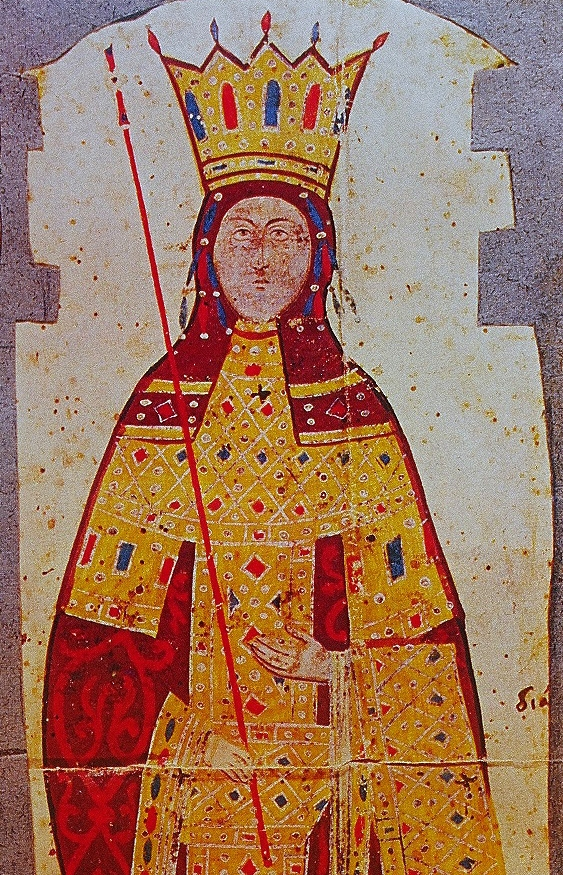 Anna of Savoy, wife of emperor Andronikos III Palaiologos. 14th-c. miniature. Stuttgart, Württembergische Landesbibliothek.